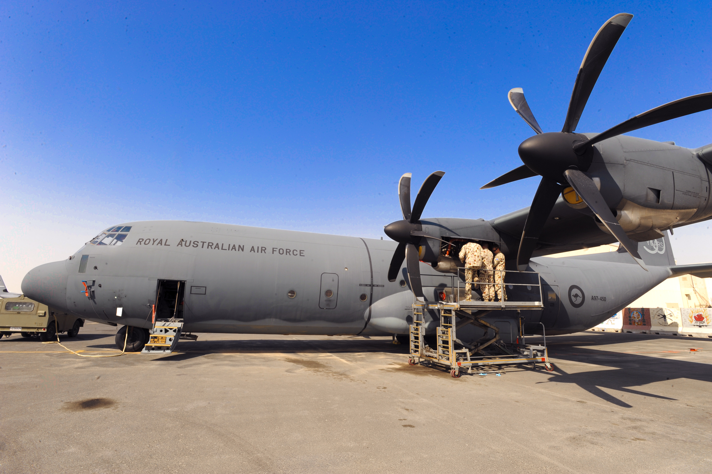 Members from a Royal Australian Air Force unit perform maintenance on a C-130J Hercules engine, Jan. 28 2009, at an undisclosed location in Southwest Asia. Preventive maintenance is performed to ensure the aircraft is mission capable at all times. The RAAF is deployed in support of Operations Iraqi and Enduring Freedom and Combined Joint Task Force - Horn of Africa